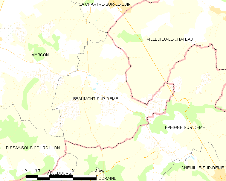 Map of French municipality